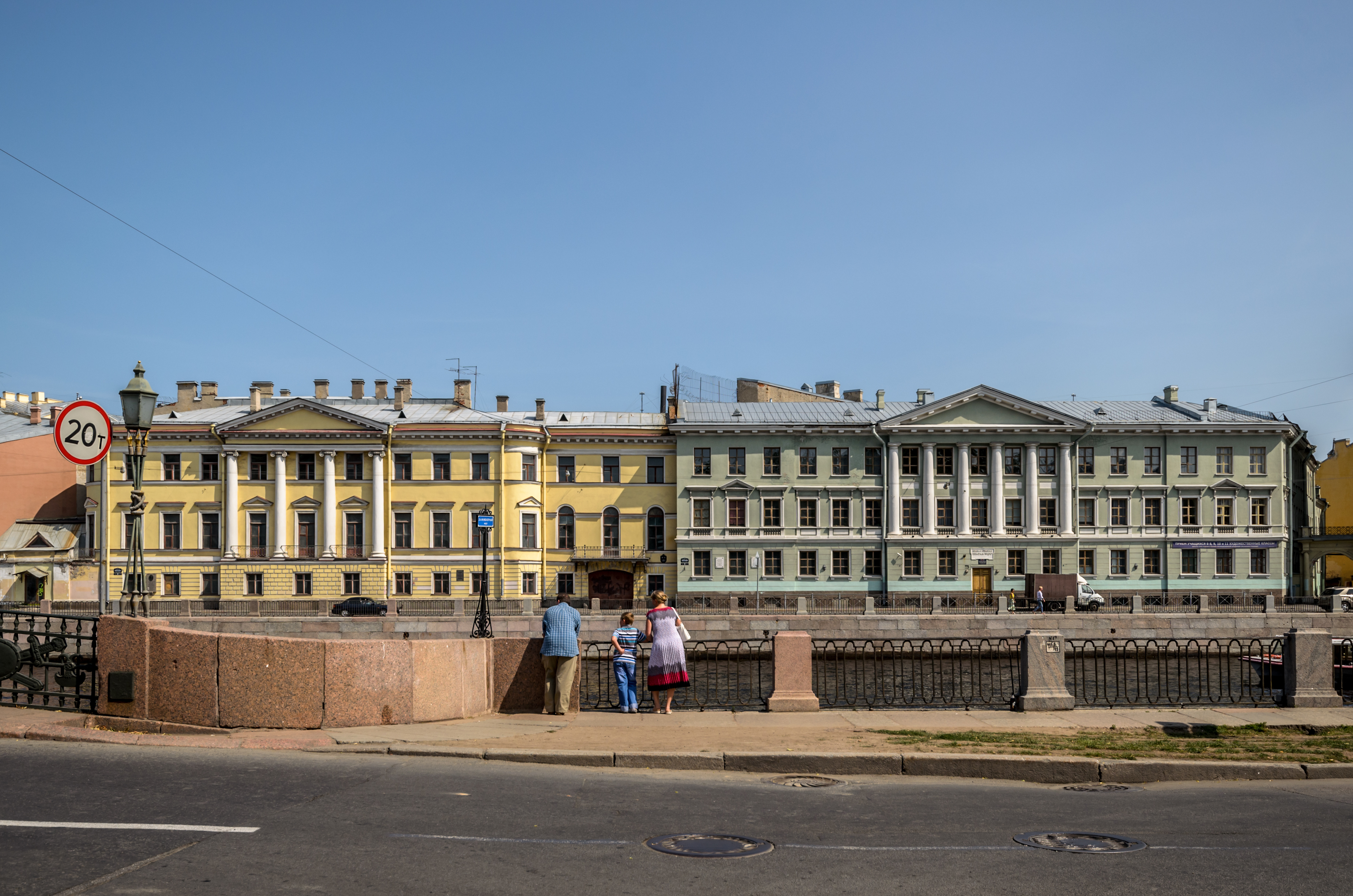 Fontanka Embankment in Saint Petersburg